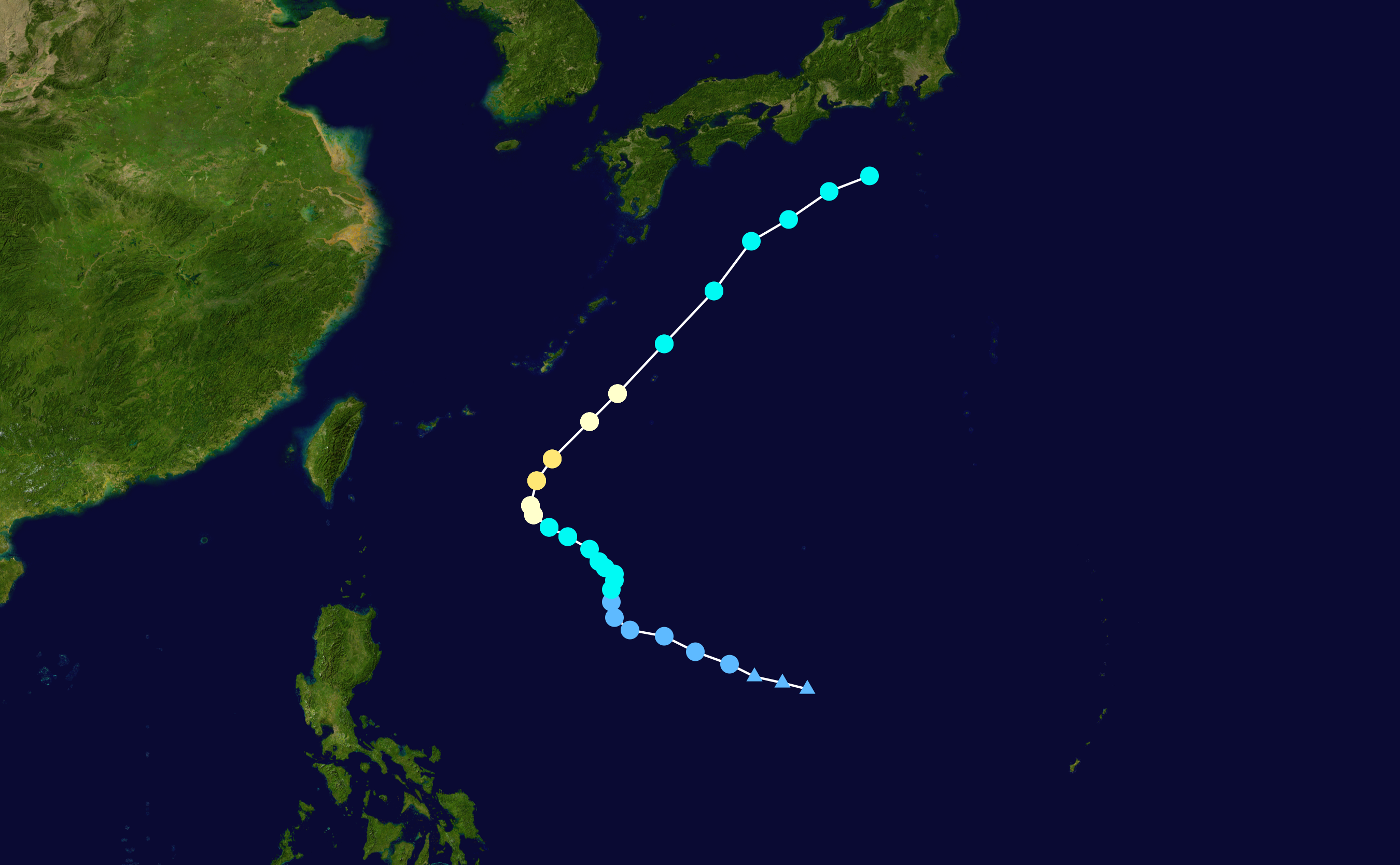 Track map of Typhoon Neoguri of the 2019 Pacific typhoon season. The points show the location of the storm at 6-hour intervals. The colour represents the storm's maximum sustained wind speeds as classified in the Saffir–Simpson scale (see below), and the shape of the data points represent the nature of the storm, according to the legend below. Saffir–Simpson scale Tropical depression≤38 mph≤62 km/h Category 3111–129 mph178–208 km/h Tropical storm39–73 mph63–118 km/h Category 4130–156 mph209–251 km/h Category 174–95 mph119–153 km/h Category 5≥157 mph≥252 km/h Category 296–110 mph154–177 km/h Unknown Storm type Tropical cyclone Subtropical cyclone Extratropical cyclone / Remnant low / Tropical disturbance / Monsoon depression